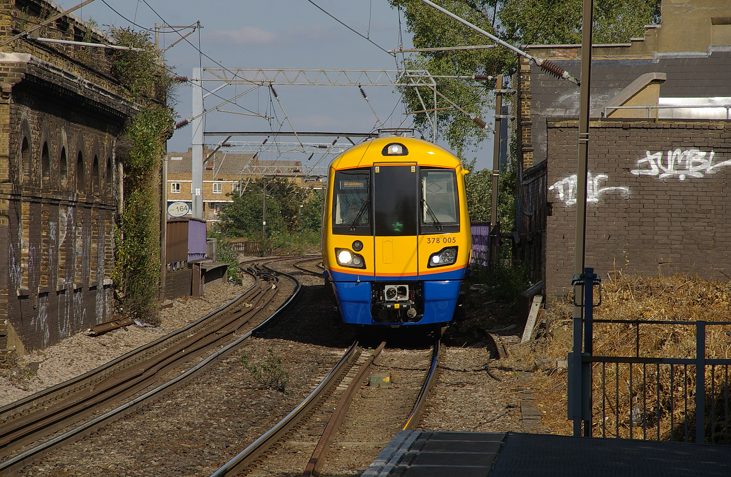 London Overground 378005 arrives at Hackney Central railway station with a North London Line service to Richmond.